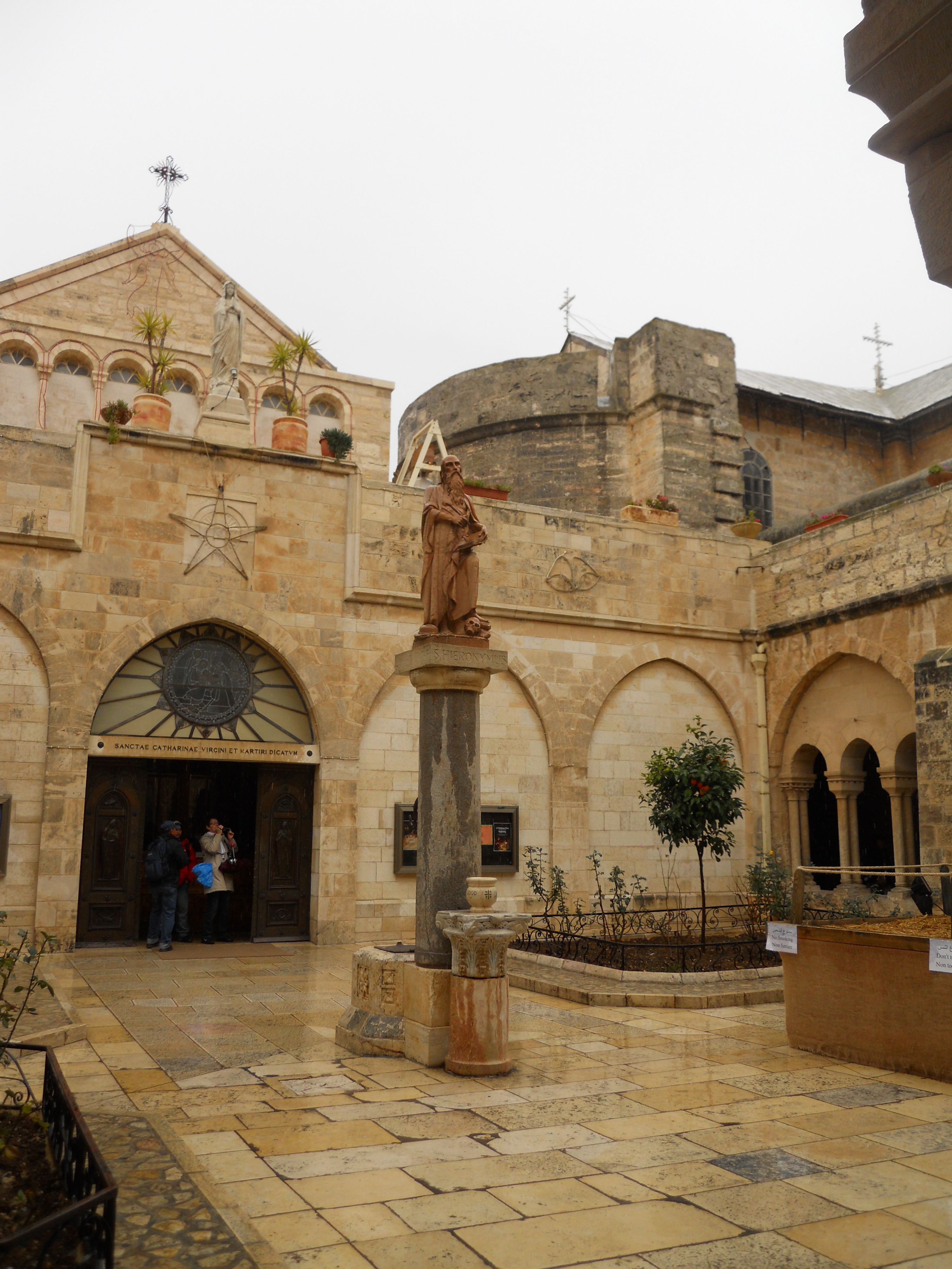 Church of the Nativity (Bethlehem)